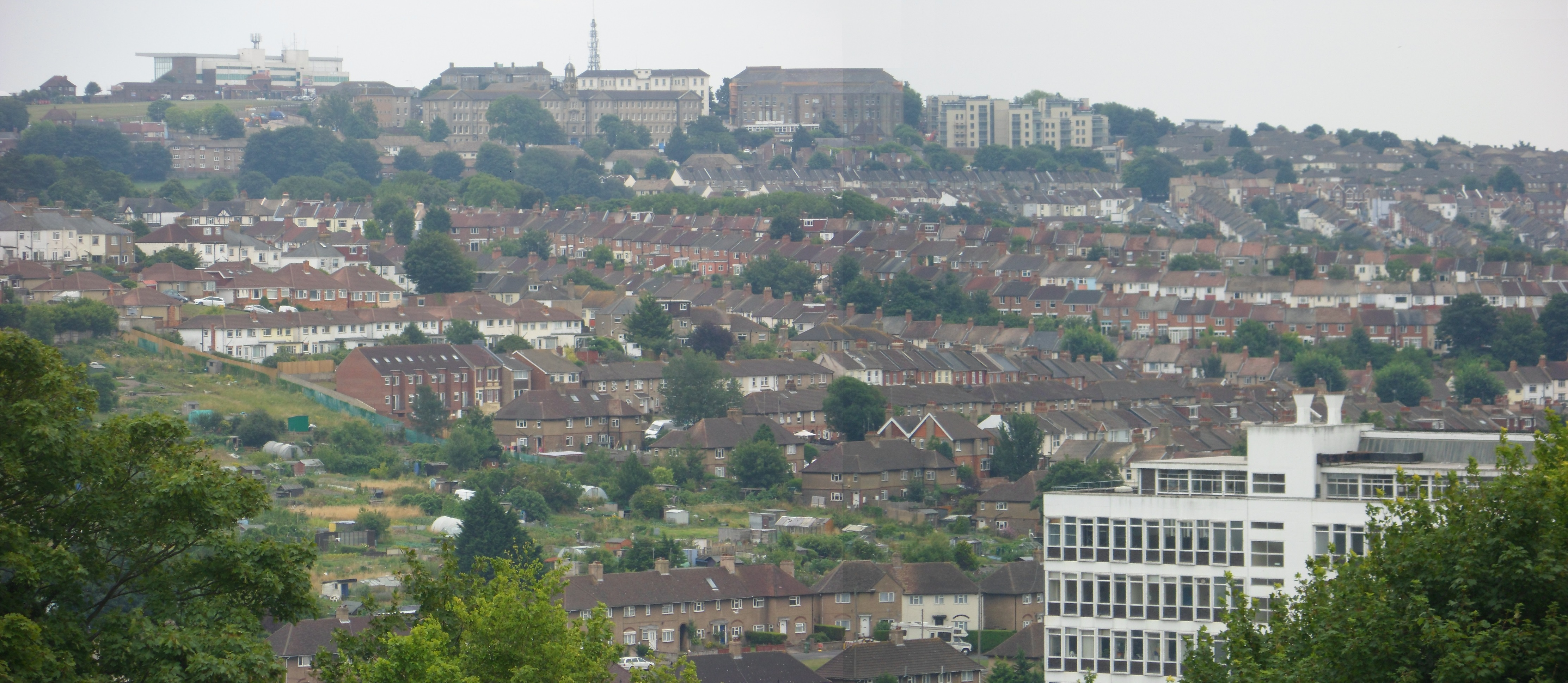 Views of Brighton and Hove #9. This view looks slightly east of due south from near the top of Hollingbury Hill, 584 feet (178 m) above sea level, towards the Bear Road/Coombe Road neighbourhood and beyond. Features (click to enlarge): The allotments separate the Bear Road area from the Bevendean estate. To the right of the allotments, roads such as Dewe, Redvers, Buller and Nesbitt Road run left-right towards the steeply sloping parallel Milner and Coombe Roads. The treeline going uphill in the centre of the picture runs between Milner and Coombe Roads. Above this, Elm Grove runs right across the picture from right to left below the large hospital buildings on the skyline. The sharply angled streets in the top right are the terraces running between Elm Grove and Hartington Road. On the skyline from left to right are Brighton Racecourse; Brighton General Hospital; new flats on Pankhurst Avenue; and the 1920s semi-detached houses of the Pankhurst Estate. In the foreground, right at the bottom, are semi-detached houses on The Highway at the bottom end of the Moulsecoomb estate. These face Lewes Road. On the other side of Lewes Road, the upper storeys of the Cockroft Building are visible. This is the main tower block of the University of Brighton. The remains of St Alban's Church at the junction of Coombe Road and Buller Road are marked. It was in the middle of being demolished at the time this picture was taken.